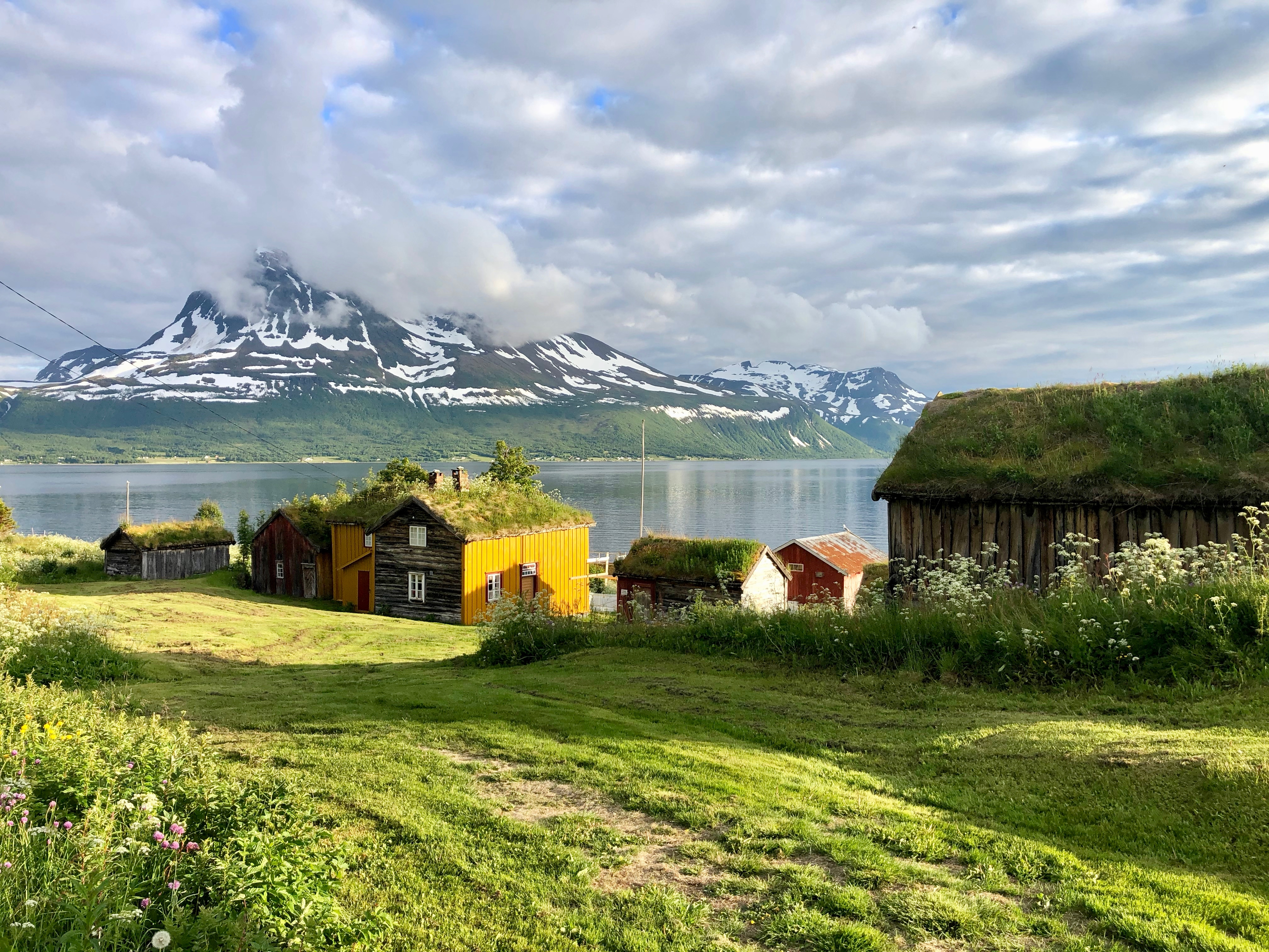 Open air museum near Straumsbukta, Kvaløya. Old farm buildings.